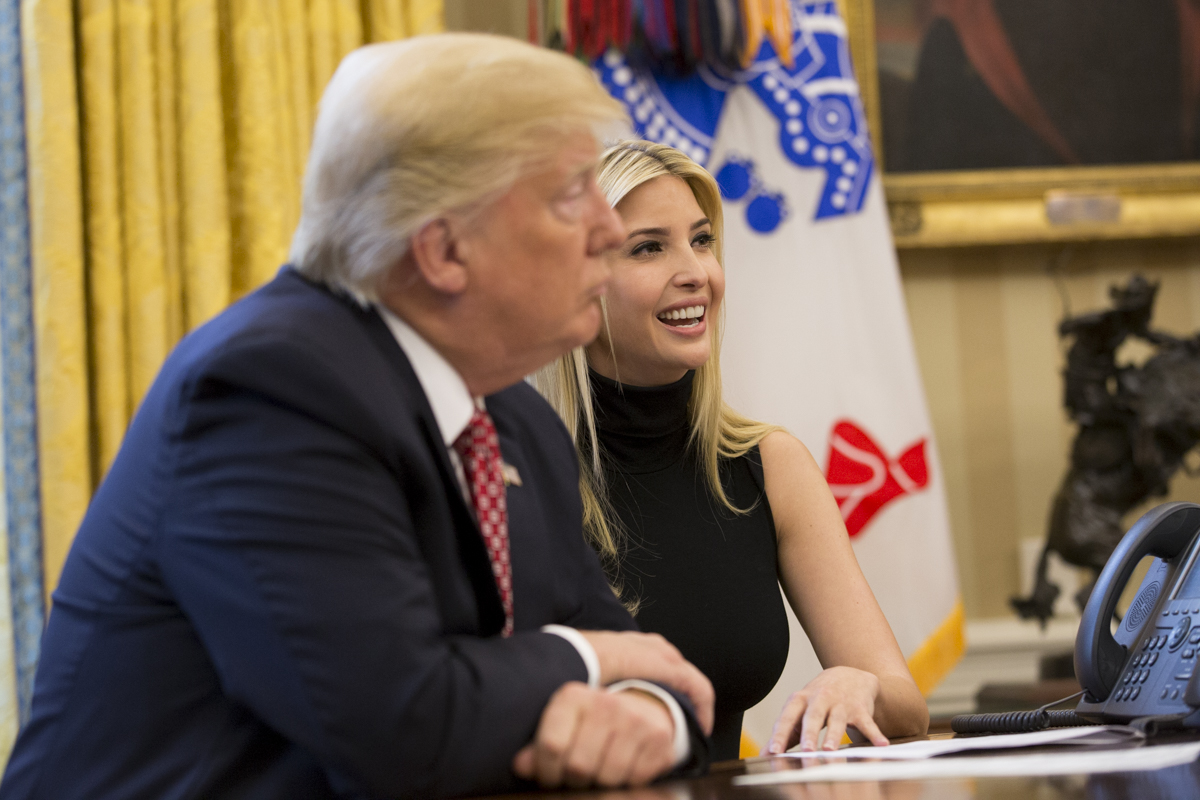 Donald Trump and Ivanka Trump discussed a wide range of topics with Commander Whitson and her fellow astronaut, Colonel Jack Fischer.